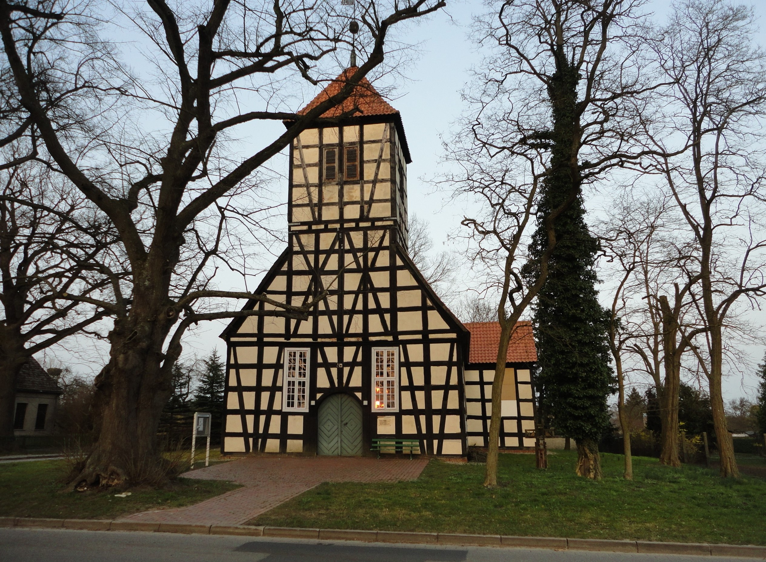 Western view of church in Luckow municipality, Vorpommern-Greifswald district, Mecklenburg-West Pomerania state, Germany